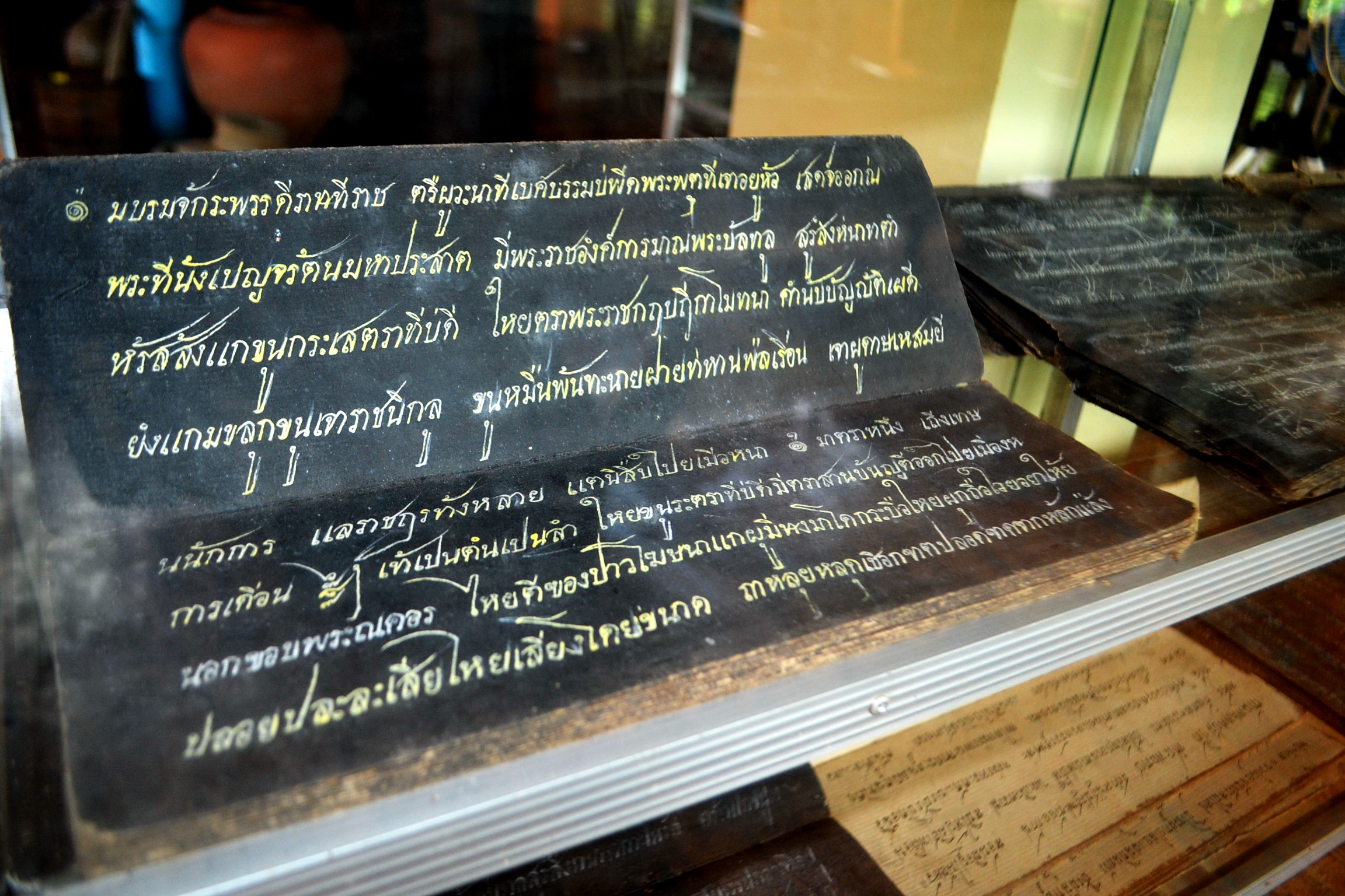 Samut_Khoi- Wat Kungtapao Folk Museum. Wat Khung Taphao, Ban Khung Taphao, Khung Taphao subdistrict, Mueang Uttaradit, Uttaradit Province, Thailand.